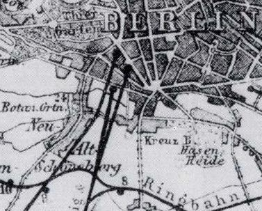 Historic map of the Rote Insel in Berlin.